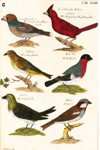 Plate XLIIII from Samuel Pepy's hand-coloured copy of Francis Willughby's "Ornithology"